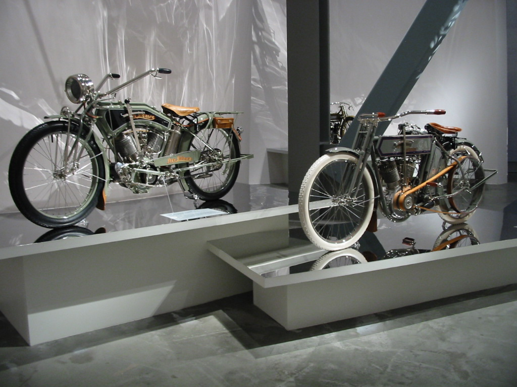 North Cluster Bikes. The Art of the Motorcycle. Las Vegas.